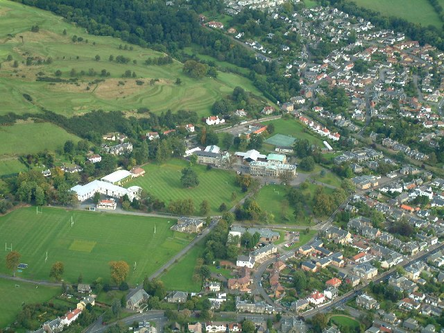 Dollar Academy from the air. Taken from 1200 feet above the town using telephoto lens